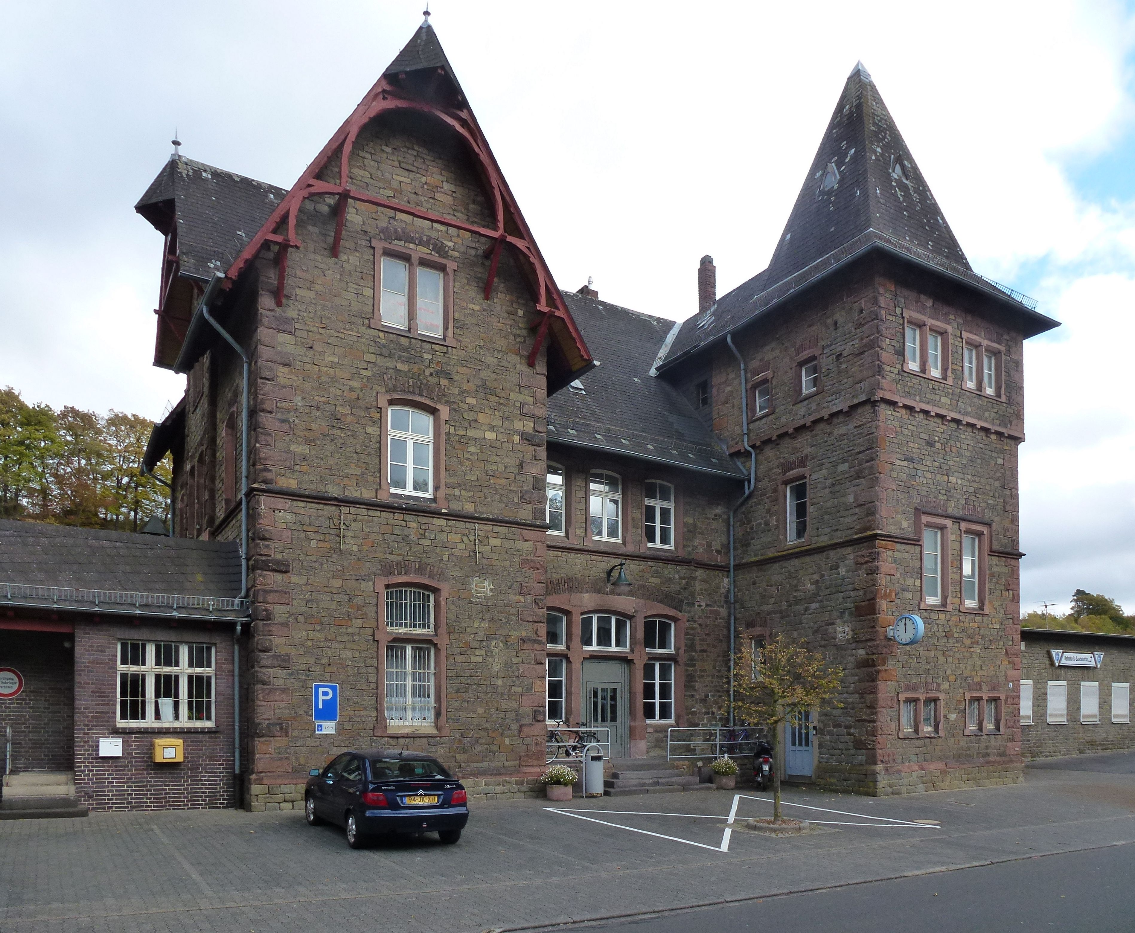 Railwaystation Jünkerath Rhineland-Palatinate